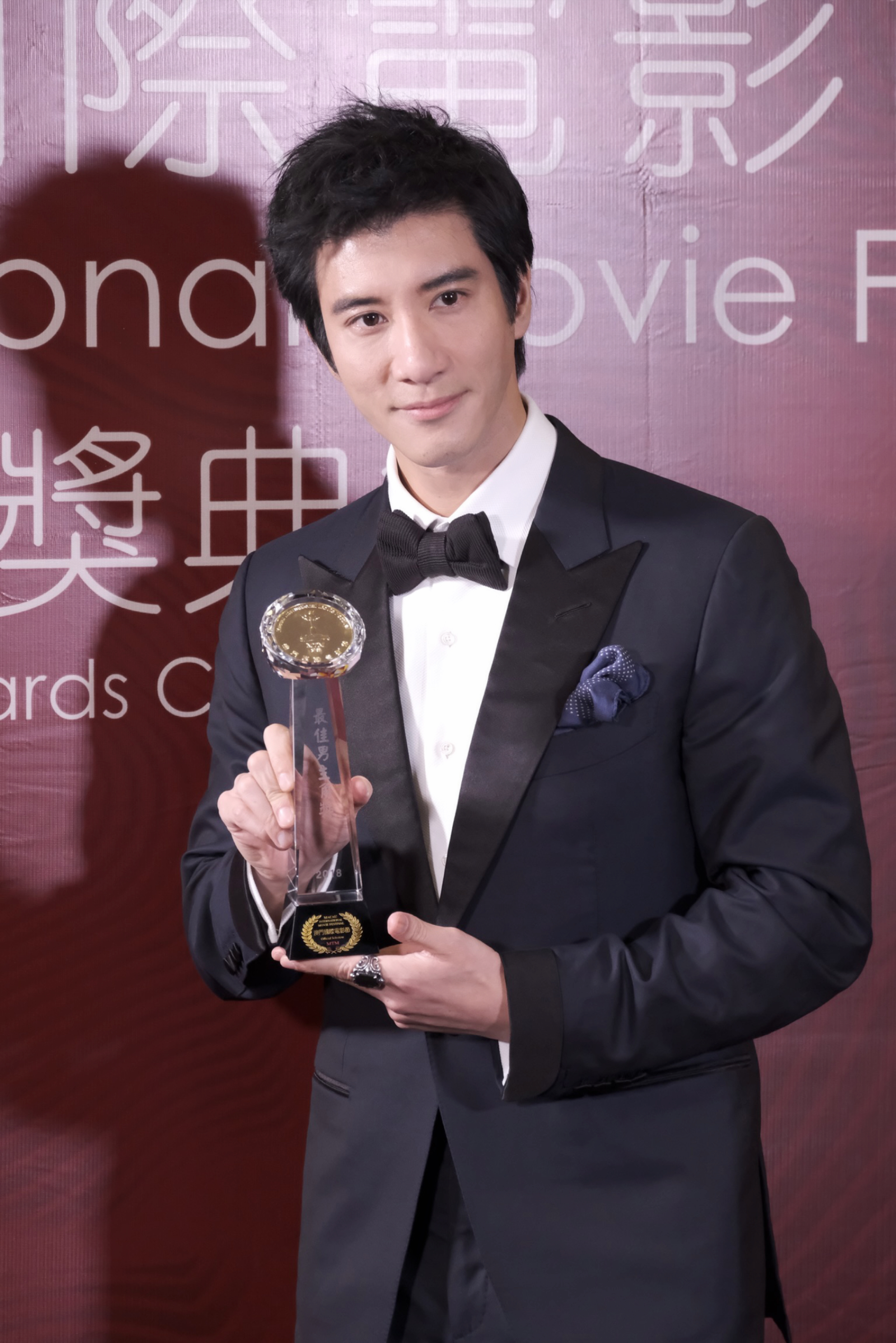 Wang Leehom at the 2018 Macau International Movie & Television Festival with the Golden Lotus Awards for Best Actor